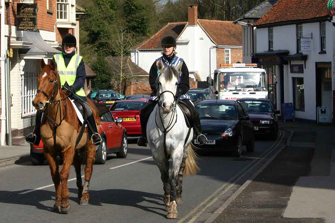 Horses In Traffic. Chobham Village Surrey UK